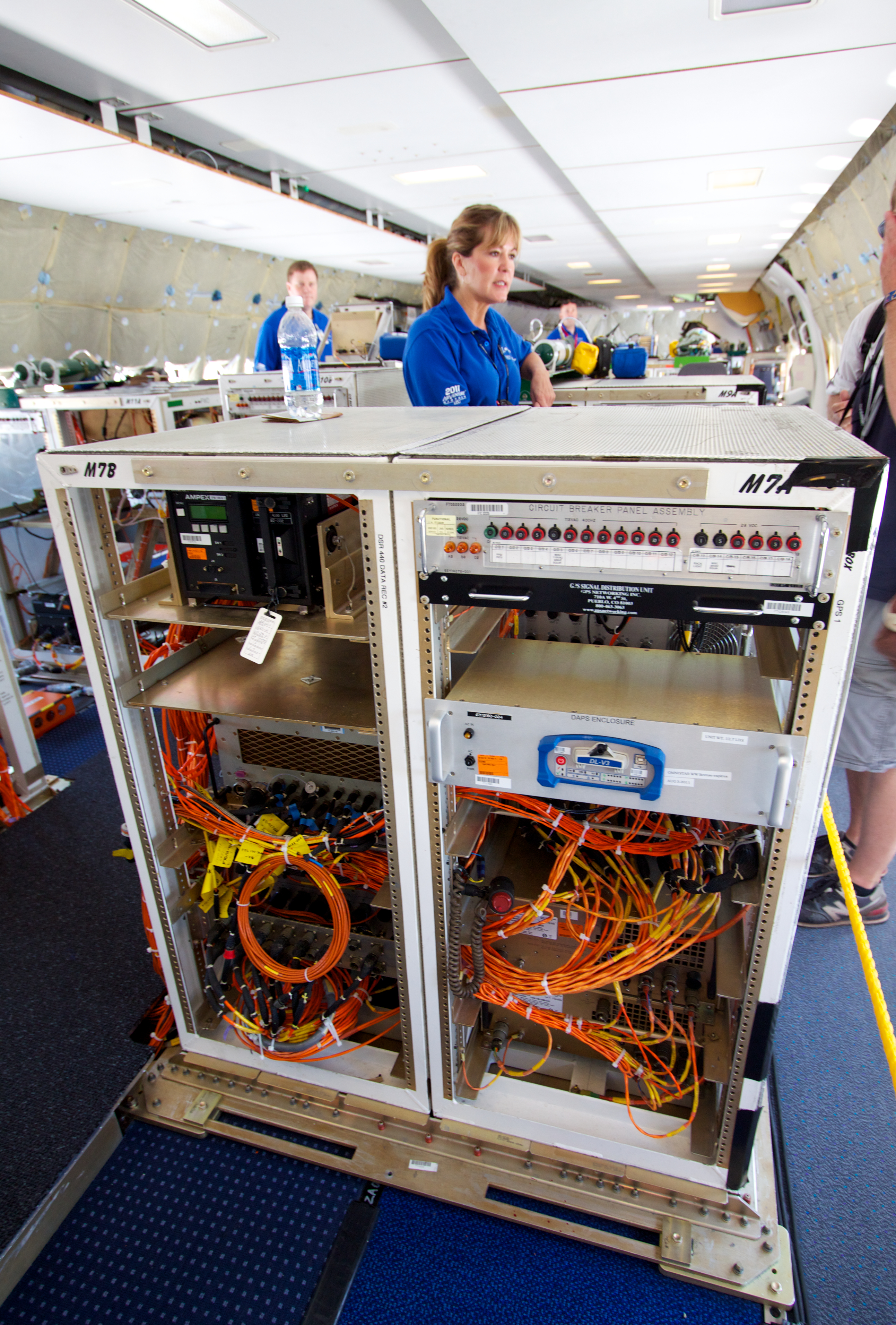 Flight test equipment in the cabin of first Boeing 787 prototype during its visit to the EAA AirVenture Oshkosh event in 2011.